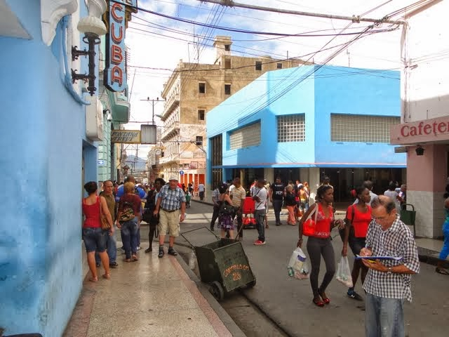 Street view in Santiago de Cuba